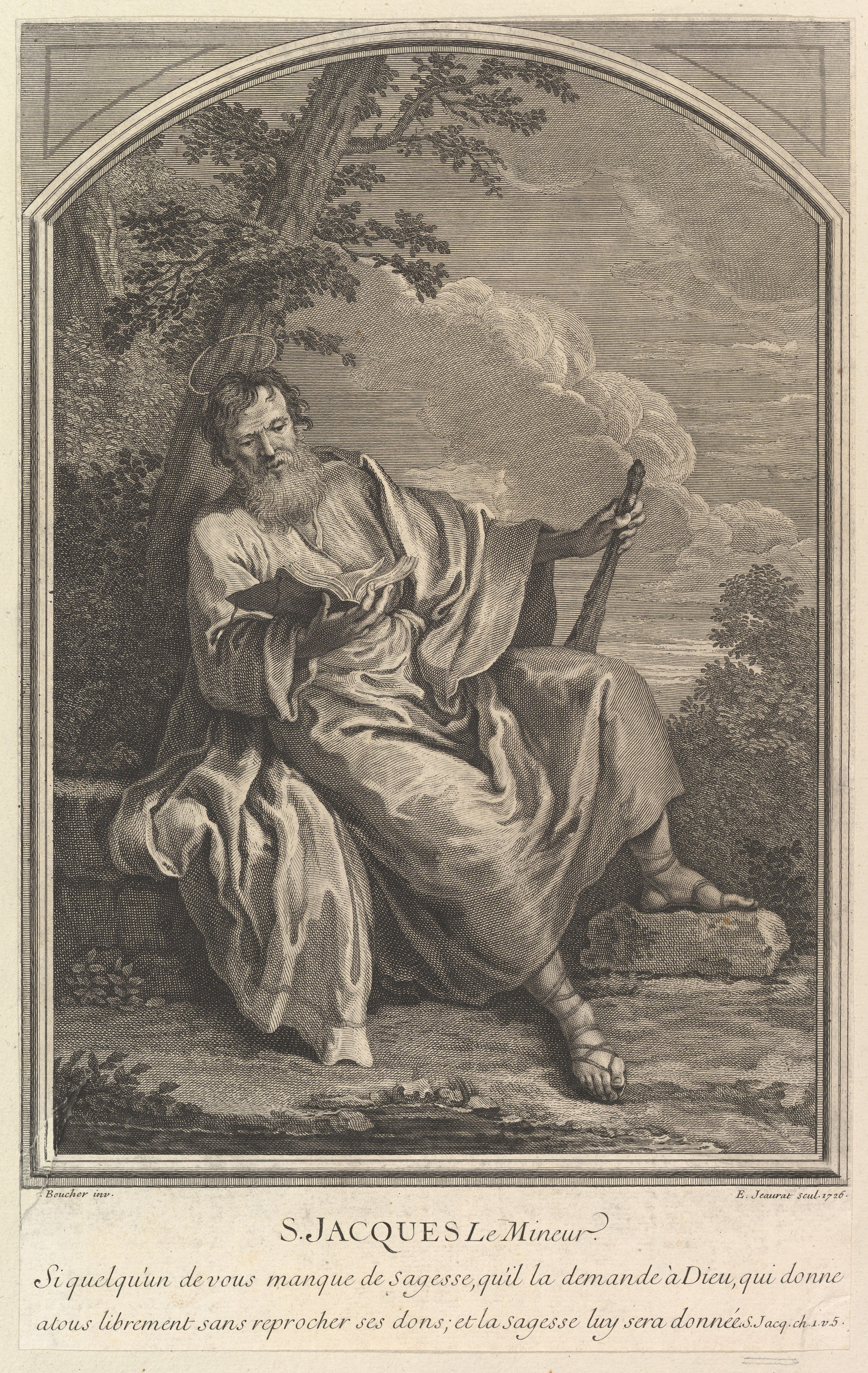 Print; Prints